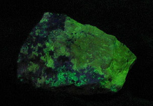 Esperite illuminated with ultraviolet light. Photo taken at the Natural History Museum, London.